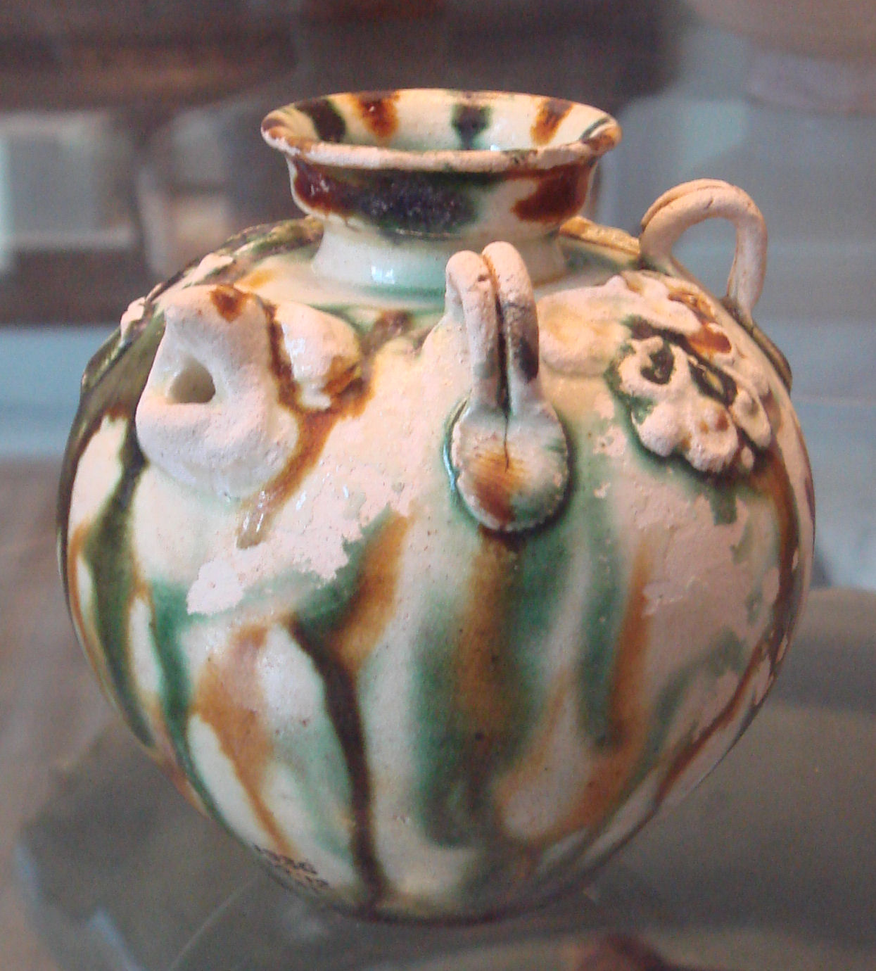 Lead_glazed_ceramic_cup_Tang_China_8th_century.